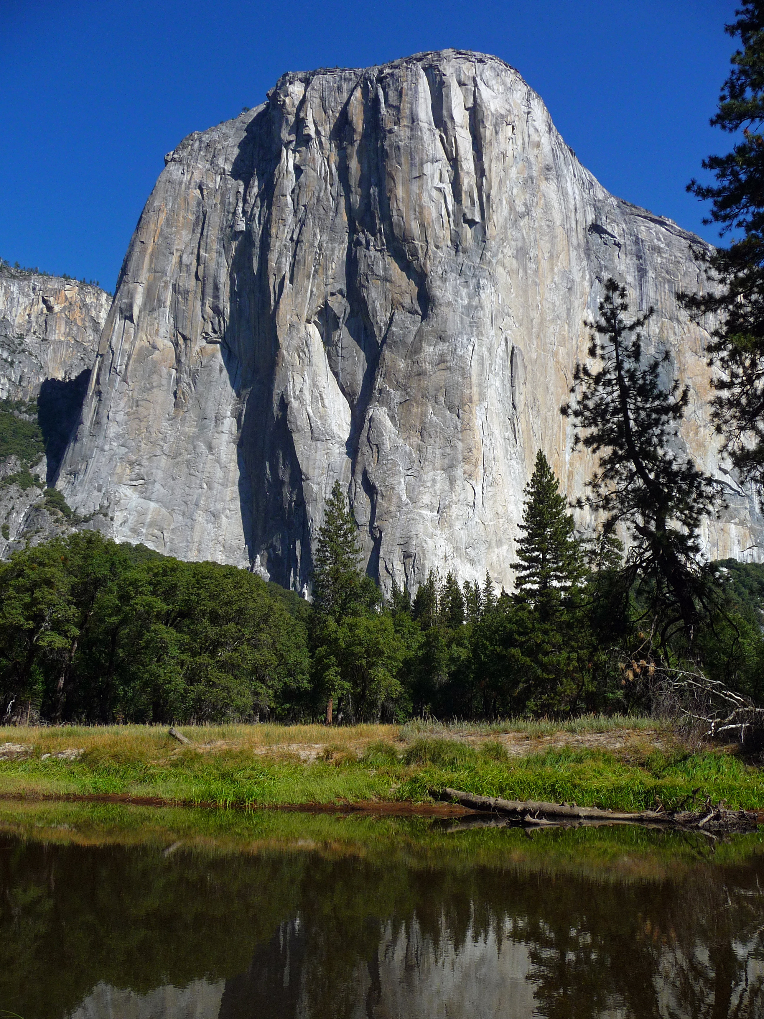 El Capitan and the Yosemite Valley